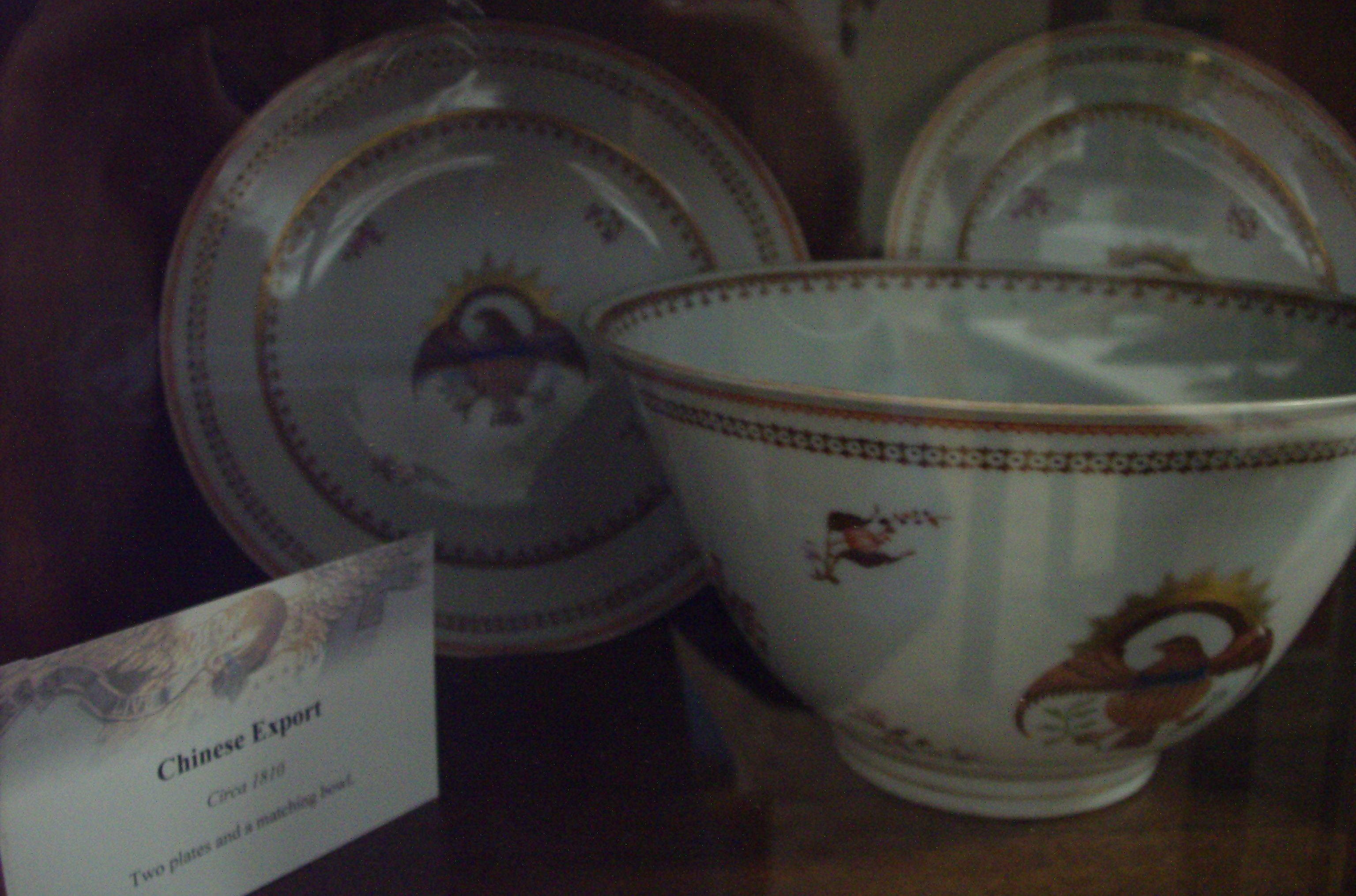 Chinese export is the name given to Chinese Porcelain that was sold to Americans and transported from China to America in American ships between 1770 and 1830. Done in many patterns it is among the very most desirable pieces for collectors of porcelain. Eagles were among the most popular designs.